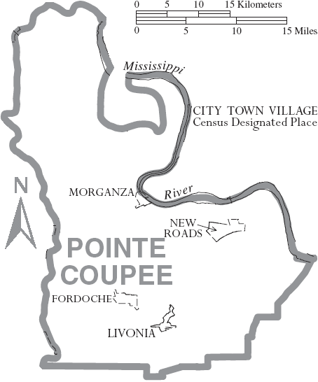 Map of Pointe Coupee Parish, Louisiana, United States with municipal boundaries